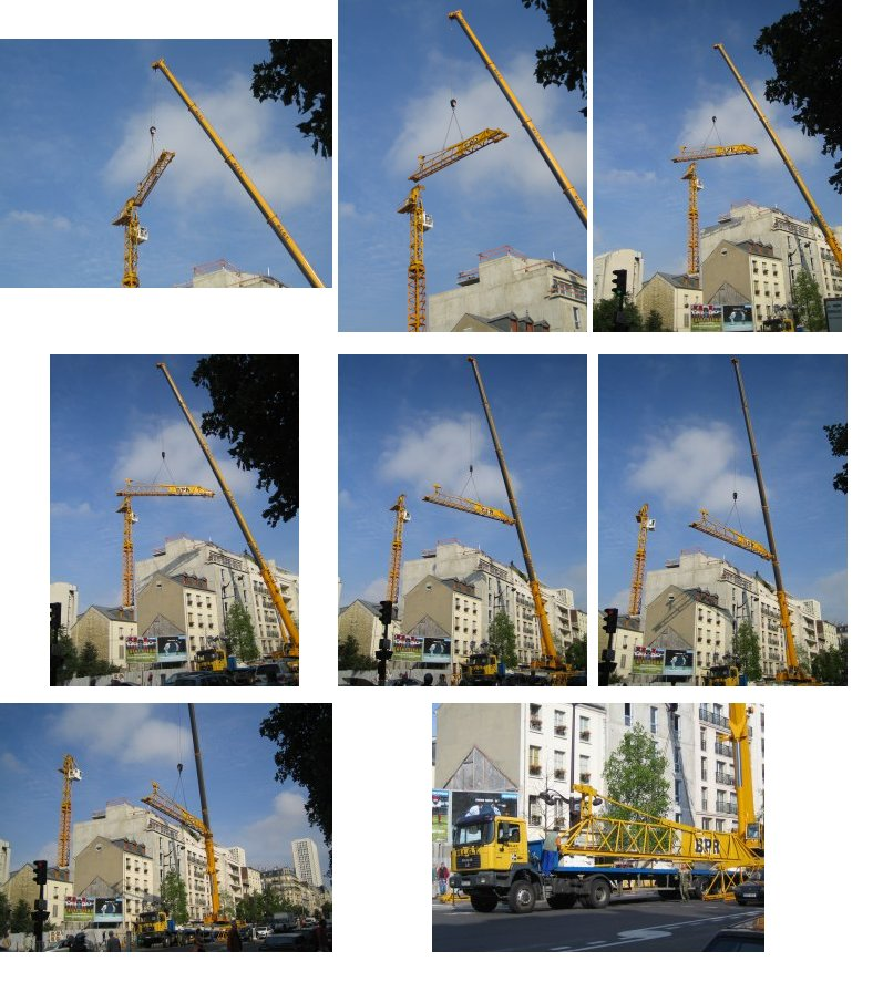 Shows the dismantling process of a crane in a town. Photos taken on Avenue d'Italie, Paris, France.